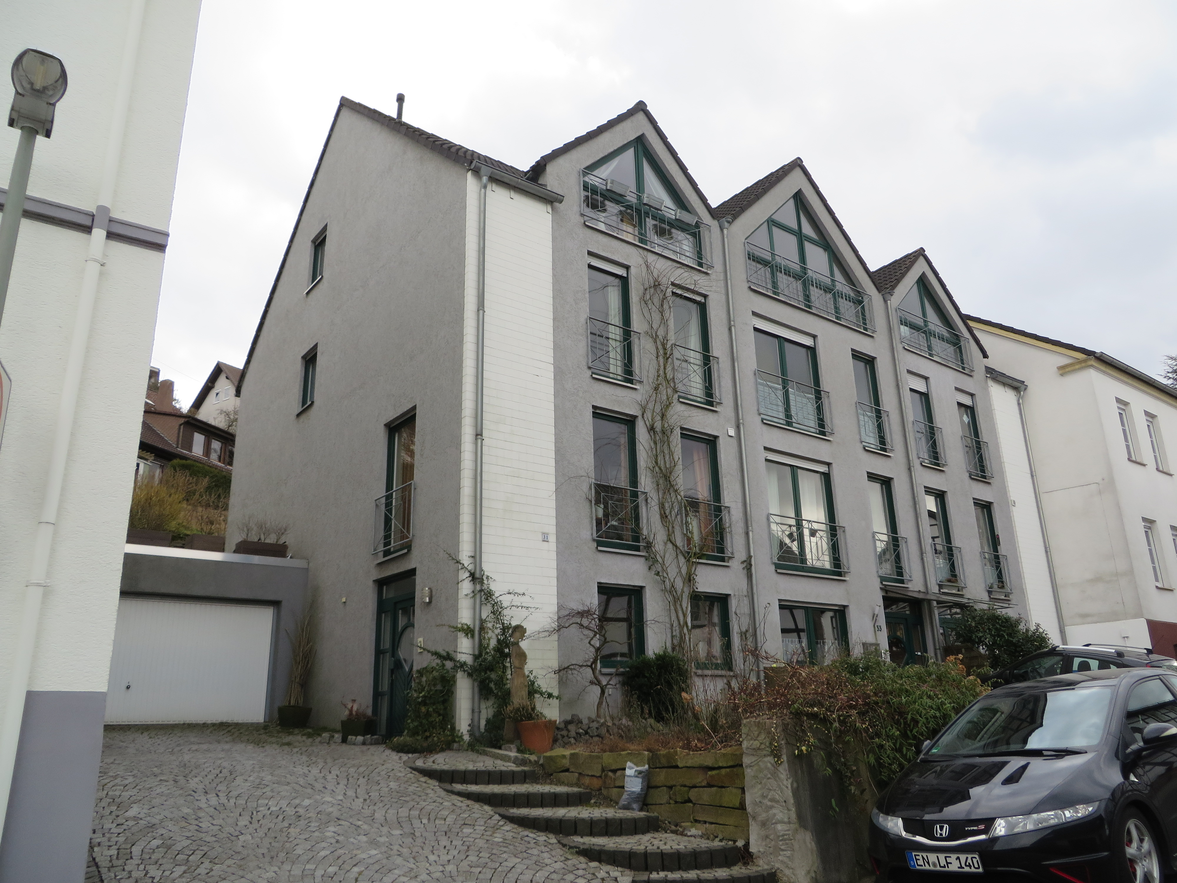 House Kirchstraße 31–33a in Witten, GermanyEsperanto: Domo Kirchstraße 31–33a en Witten, Germanio